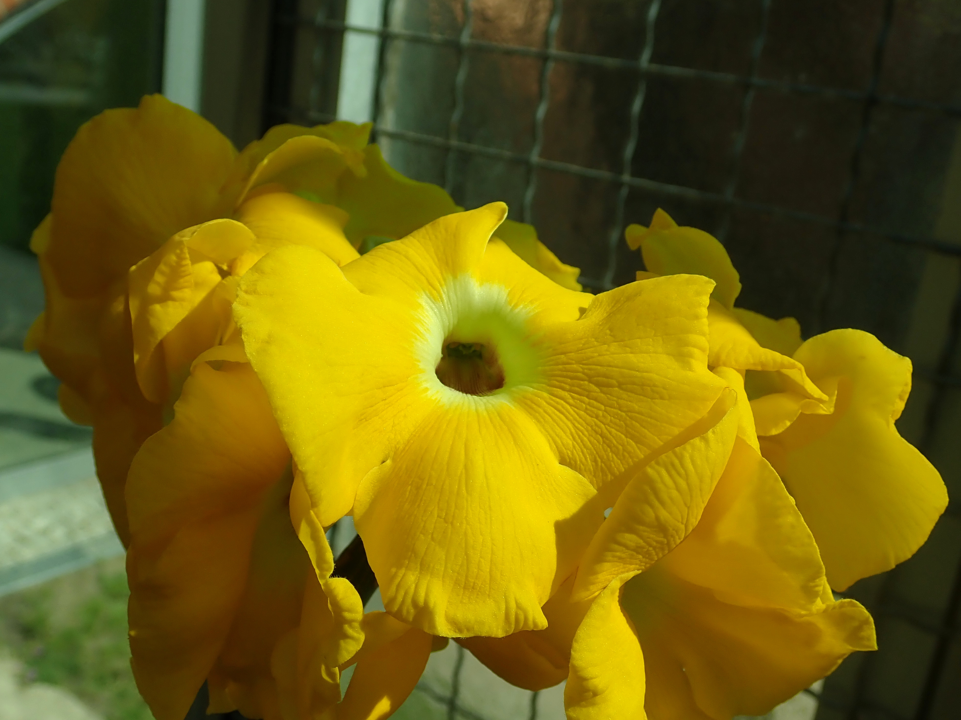 Uncarina ihlenfeldtiana, Berlin-Dahlem Botanical Garden.